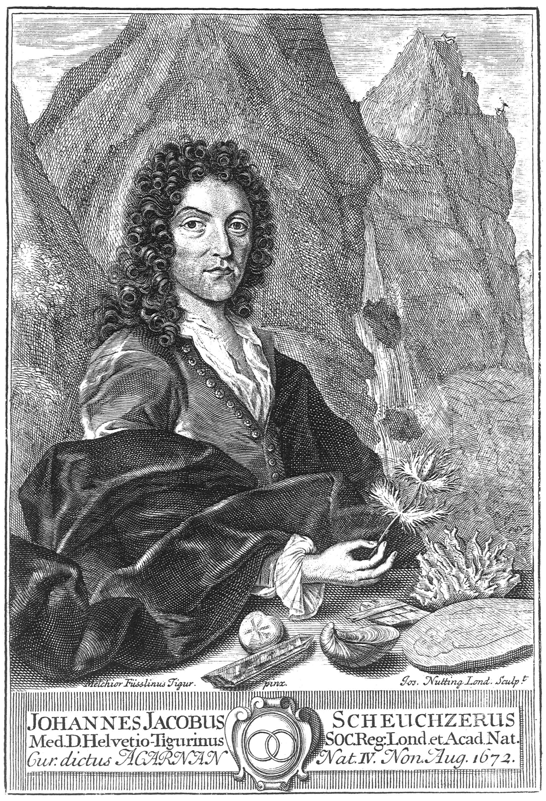 The approximately 35 yeras old Johann Jakob Scheuchzer. Etching by Joseph Nutting according to an original of Johann Melchior Füssli; London about 1707.